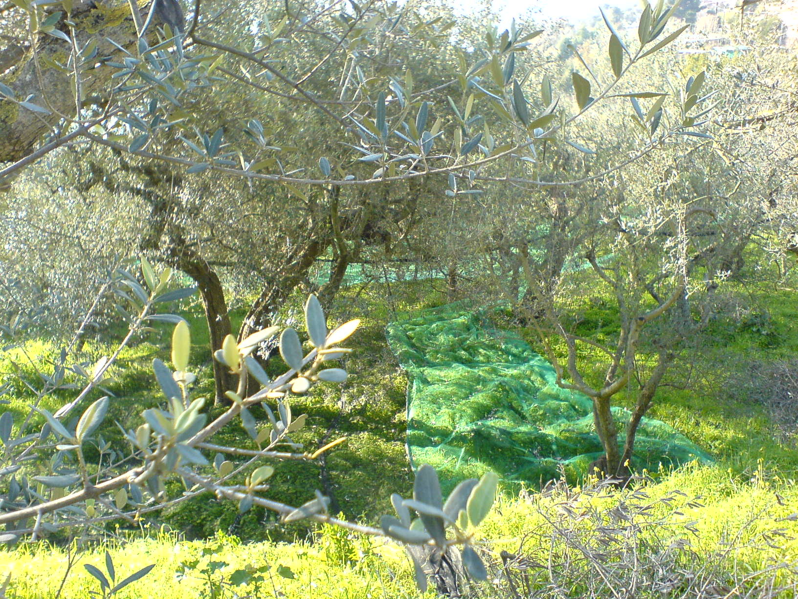 Olive trees in Italy